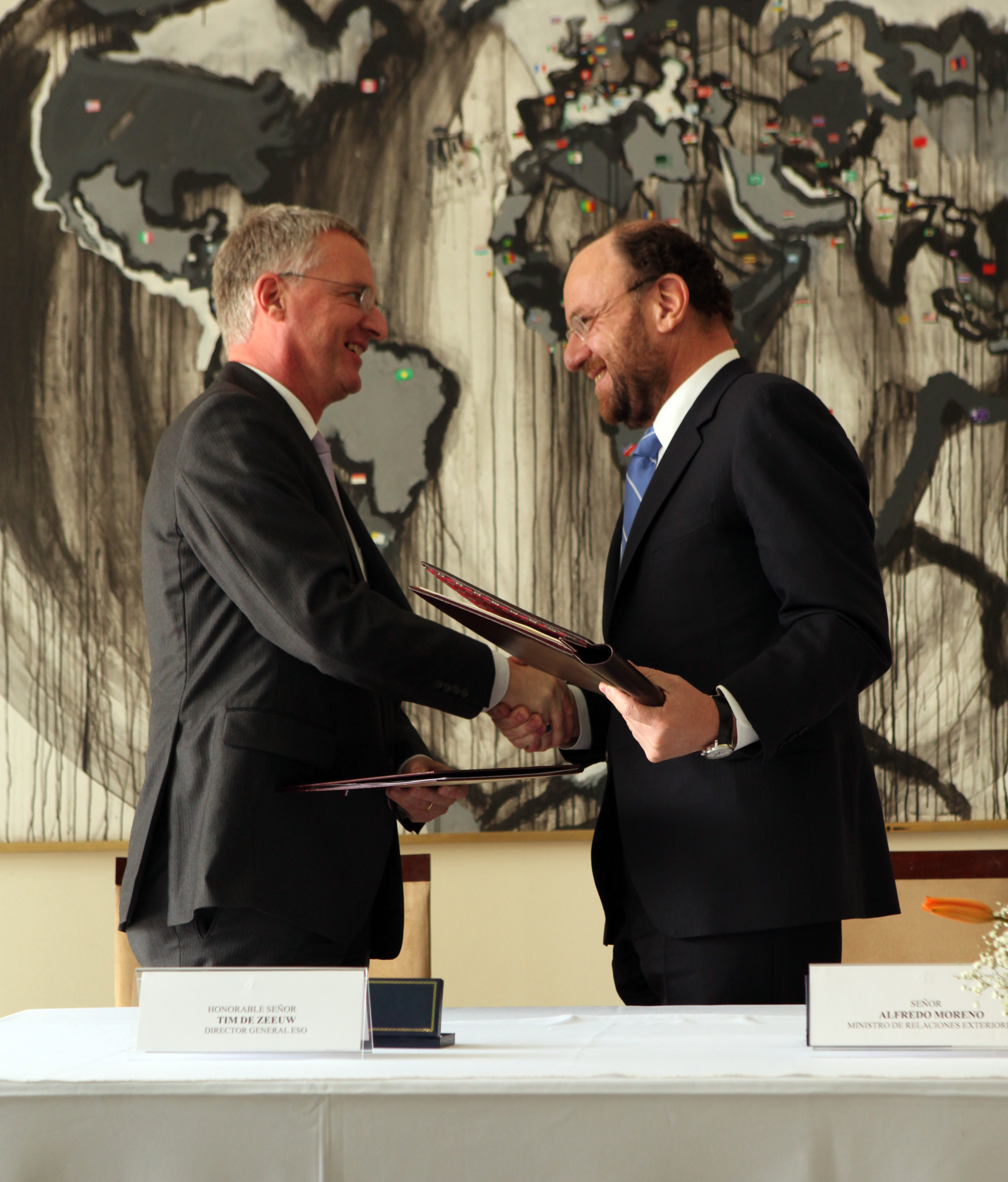 The Chilean Minister of Foreign Affairs, Alfredo Moreno (right), and ESO Director General, Tim de Zeeuw (left), signing an agreement on 13 October 2011 regarding land for the European Extremely Large Telescope. This agreement between ESO and the Chilean government includes the donation of land for the telescope, as well as a long-term concession to establish a protected area around it, and support from the Chilean government for the establishment of the E-ELT Observatory.